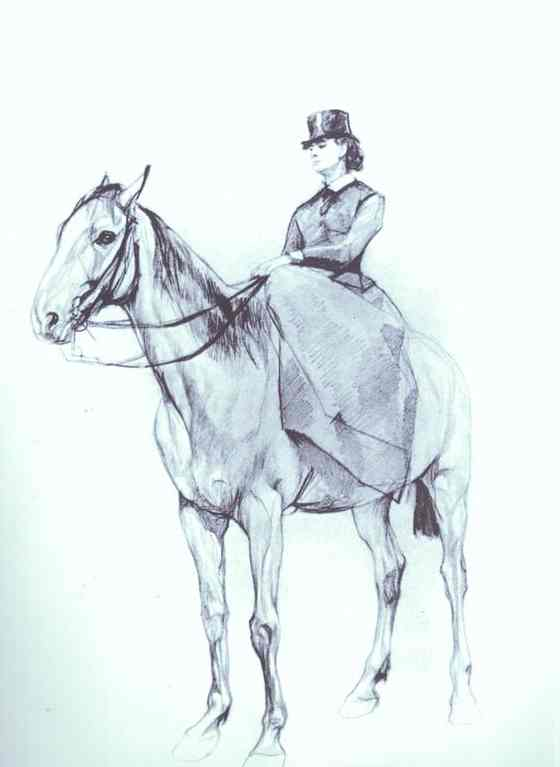 Maria Mamontova Riding a Horse. 1884. Pencil on paper mounted on cardboard. Private collection.